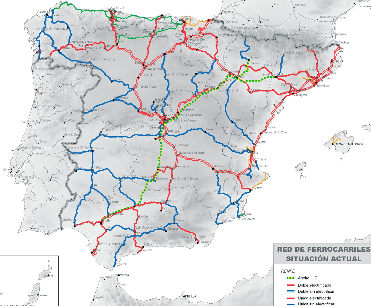 Legend: Yellow-Green dotted line: standard gauge, used for AVE tracks. Double red line: double, electrified, tracks. Double blue line: double, non-electrified, tracks. Red line: single, electrified, tracks. Blue line: single, non-electrified tracks. Source: Plan Estratégico de Infraestructuras y Transporte (PEIT)